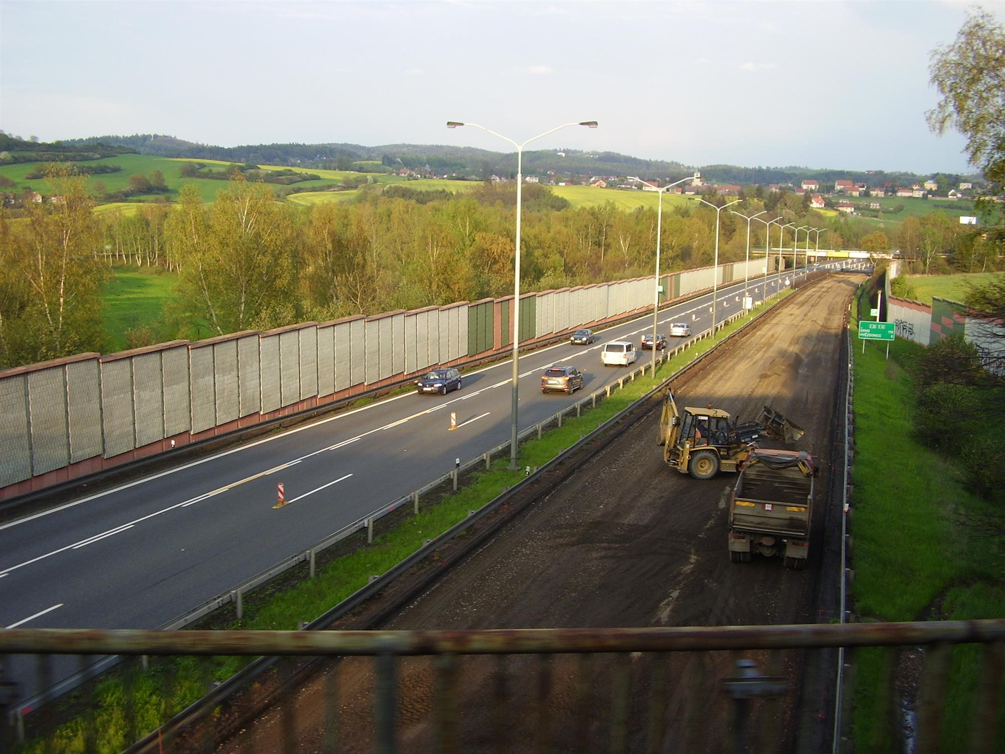 Rebuilding part of D1 highway near Mirošovice from train bridge